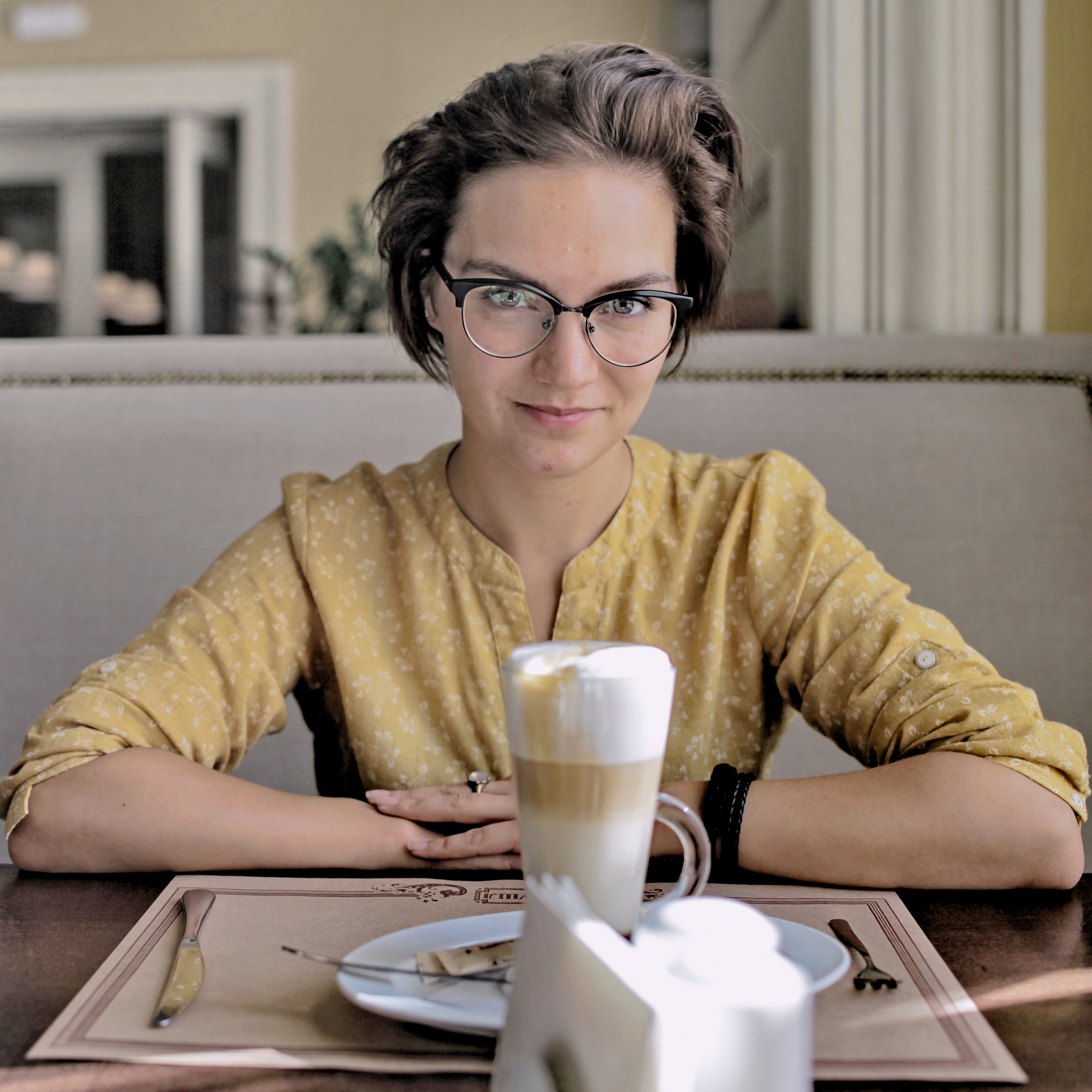 Olga Fraze-Frazenko, poet, painter, and film director, Lviv, Fall 2017